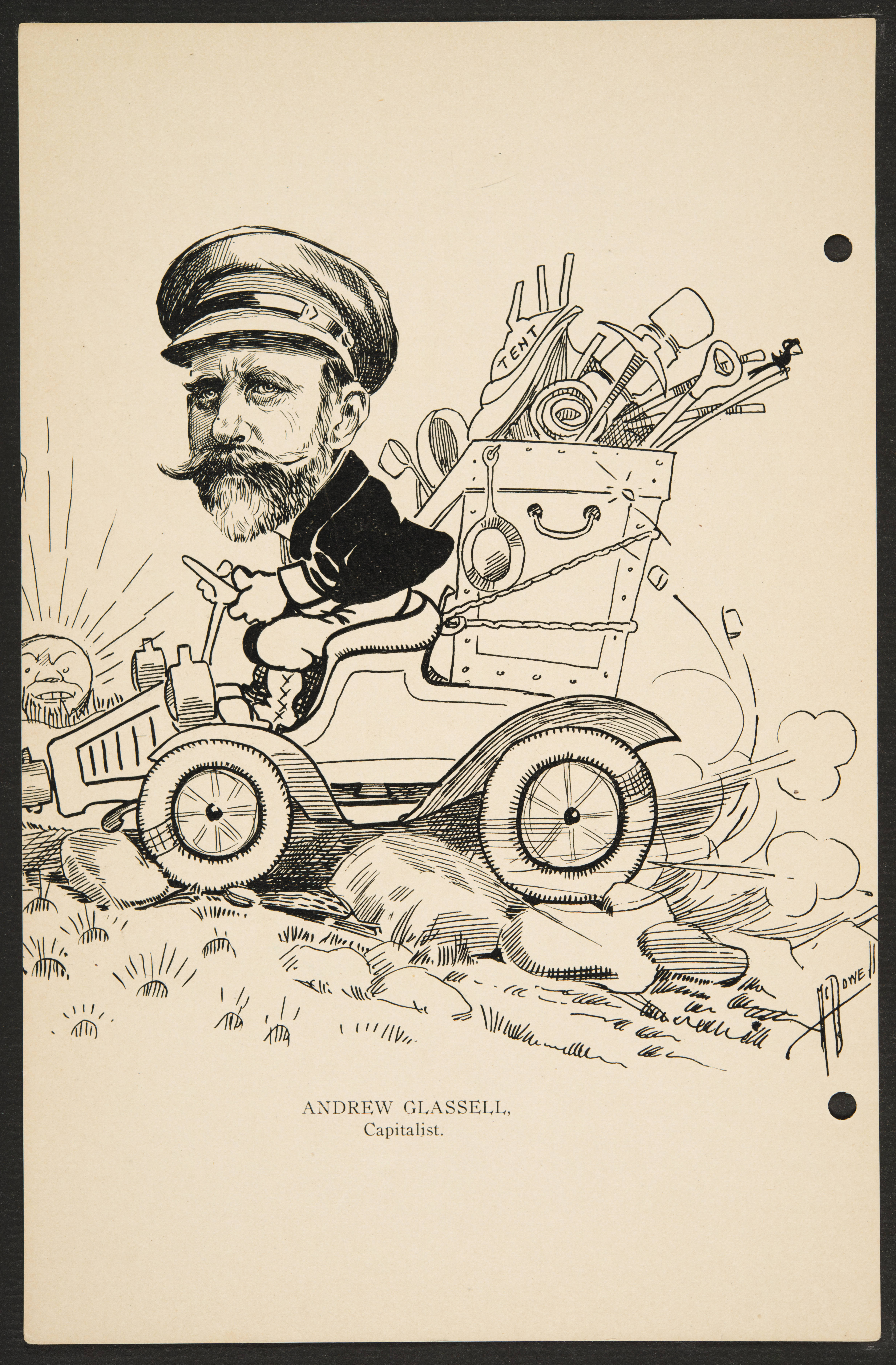 As we see 'em As we see 'em: a volume of cartoons and caricatures of Los Angeles citizens. Portland, Oregon: E.A. Thomson, [1904?-1911?]. With an introduction by Antony E. Anderson. "Photographs from which these pen and ink sketches were produced have been furnished by Schumacher. Place of publication (of the original version): Portland, Oregon, USA Filename: laas-shidler-f860-c12 Coverage date: 1900?/1911 Part of collection: LA as Subject Type: texts; images Part of subcollection: Wally G. Shidler Historical Collection of Southern California Ephemera Repository name: Wally G. Shidler Historical Collection of Southern California Ephemera Format: 316 p. of ports. ; 30 cm. Date issued: 1904?/1911? Repository address: 2934 Cudahy Street, Walnut Park, CA 90255-6829, USA Date created: 1904?/1911? Language: English Subject (topic): Los Angeles (Calif.) -- Biography -- Portraits Contributing entity: Wally G. Shidler Title (alternate): Southern Californians "as we see 'em" Publisher (of the digital version): University of Southern California Format (aat): caricatures; books Creator: Anderson, Antony E., introduction Legacy record ID: laas-m Access conditions: By appointment. Reservations required. Phone 323-581-2367. Contributor: Southern California Printing Co., printer; Thorpe Engraving Col, engraver; Commercial Engraving Co., engraver Publisher (of the original version): E.A. Thomson